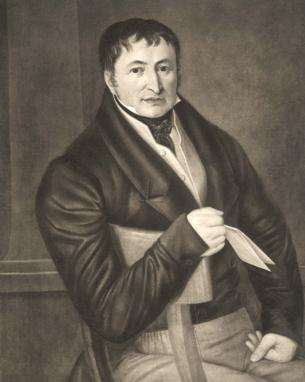 Friedrich Koenig (1774-1833), inventor of the high-speed printing press